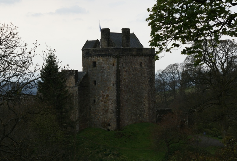 Castle Campbell (Scotland)